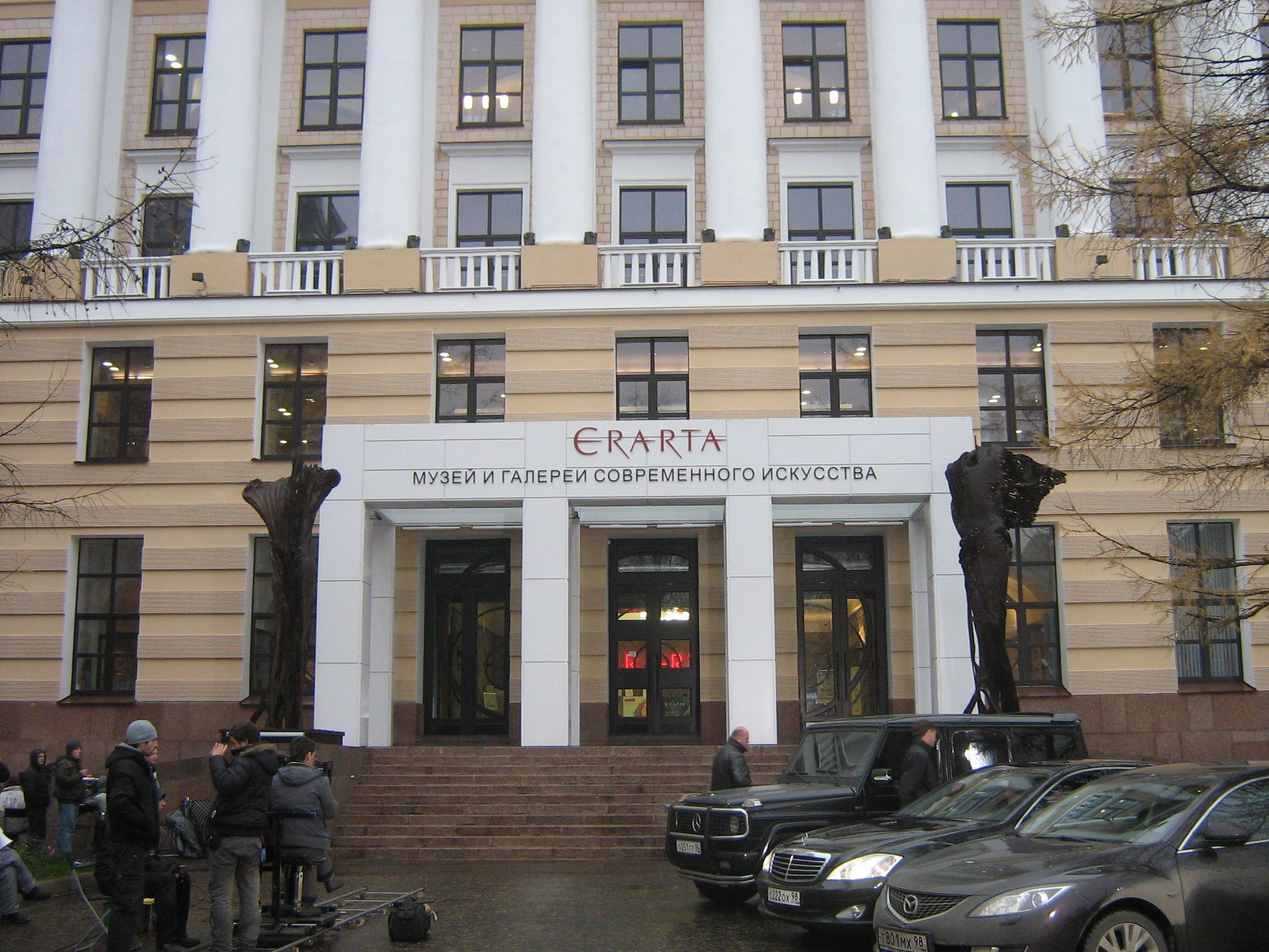 Saint Petersburg (Russia), Vasilievsky Island